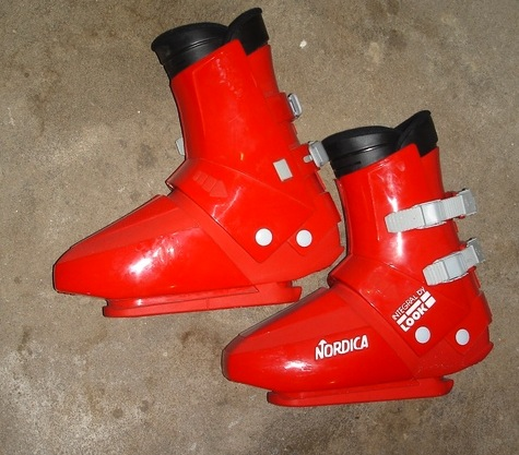 A pair of bright-red Nordica rear-entry ski boots used with the Look Integral ski binding system. The basic boot design is a typical late-1980s rear-entry design. Nordica's version of this design used two pivots, seen as the white disks near the heel. The larger pivot at the front allowed the leg to flex forward during skiing, the smaller one at the rear allowed the back of the boot to swing rearward to remove them. Opening the two buckles and swinging the rear portion of the boot outward made them easy to put on or remove. The Integral bindings clipped onto the extension on the bottom of the boots. This replaced the flanges at the toe and heel on conventional boots with a single plate-like mounting point with the same flanges. The advantage was that the mounting points were the same for every pair of boots, so the bindings did not have to be adjusted once mounted to the ski. This was designed for use in rental shops, eliminating the time consuming fittings.